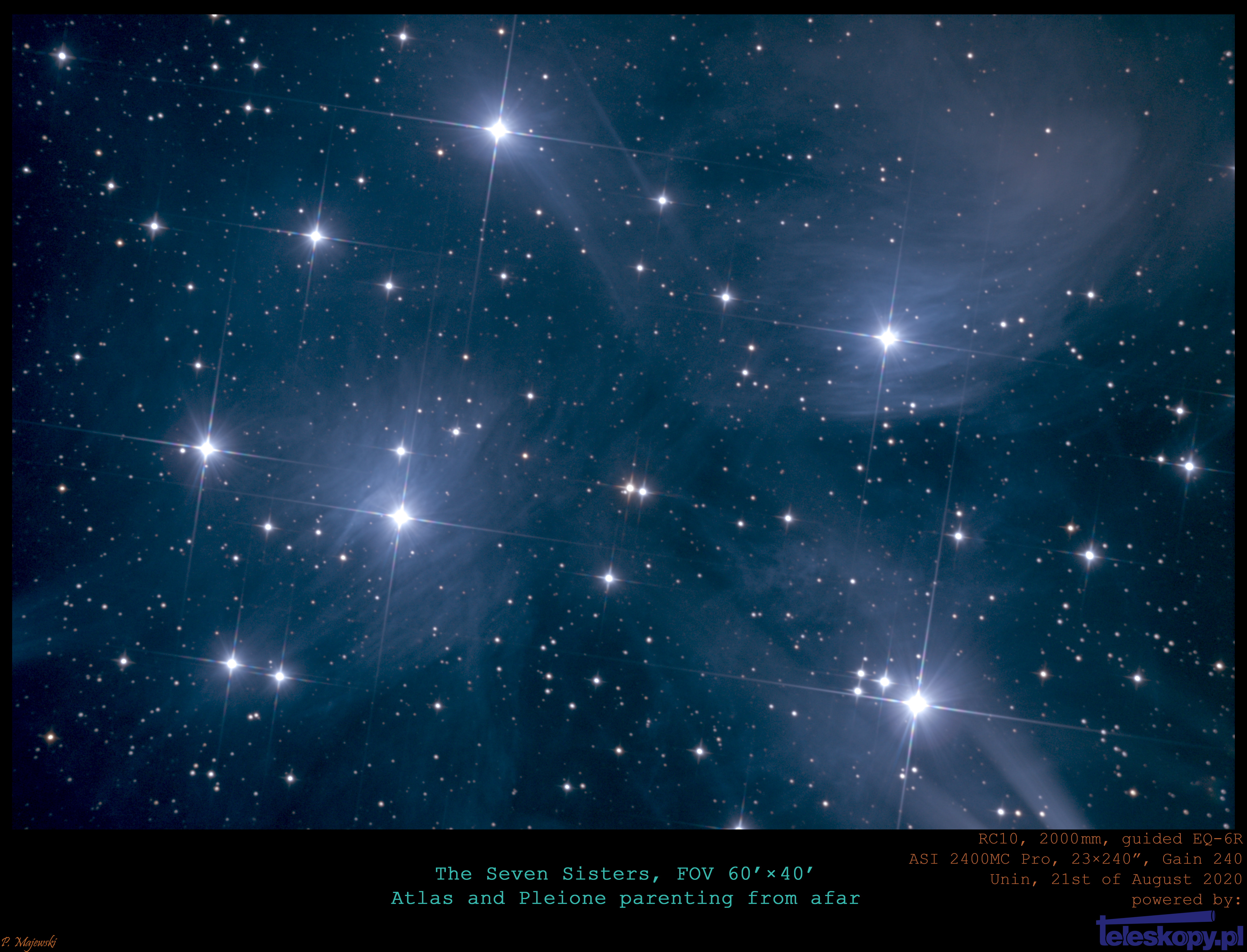 Amateur astrophotography of The Seven Sisters, with stray light from Atlas and Pleione. Countryside, Poland, RC 10" scope, ASI 2400MC Pro camera and guided EQ-6R Pro mount.